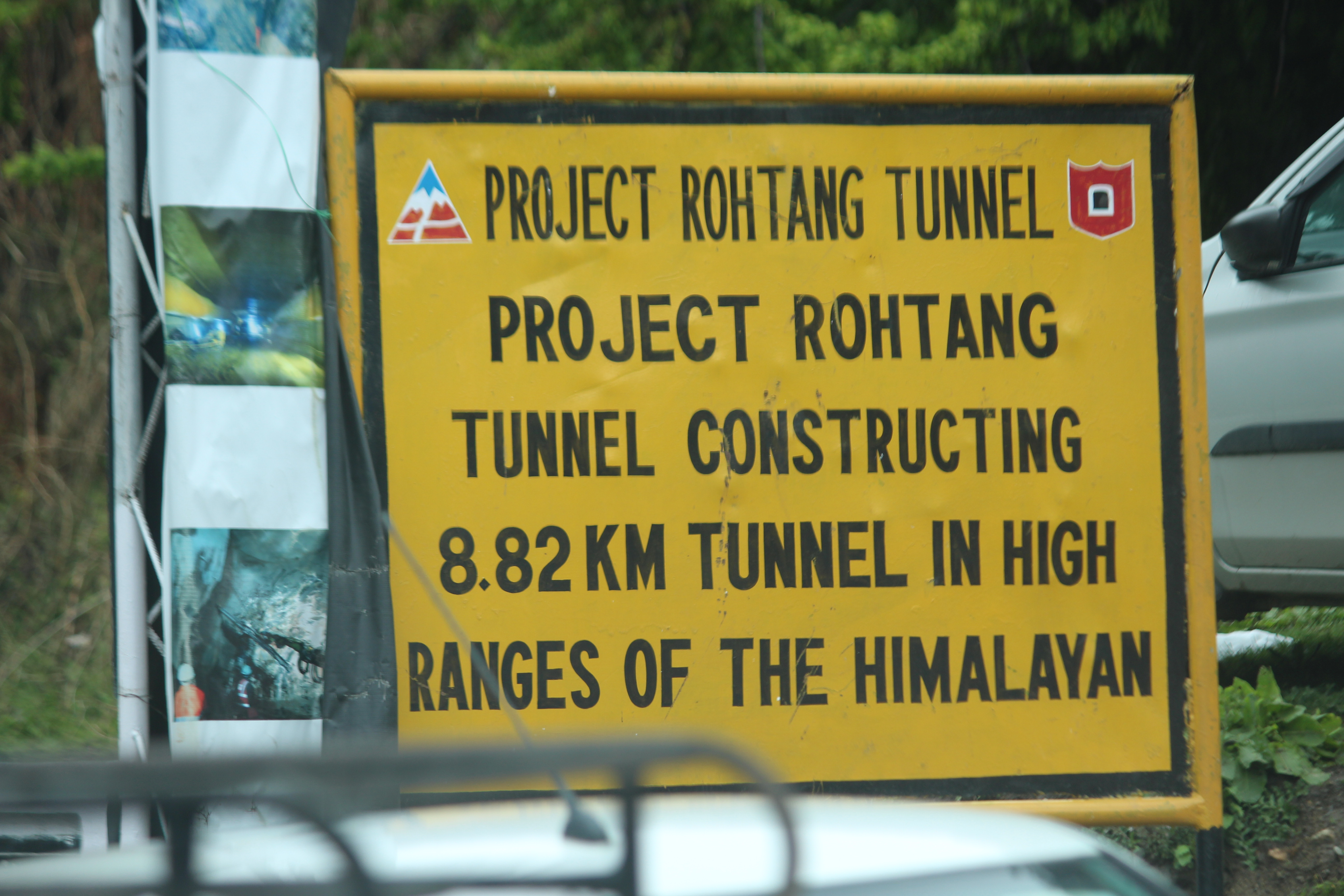 Description board of project Rohtang Tunnel at Solang, Palchan Gram Panchayath, Himachal Pradesh